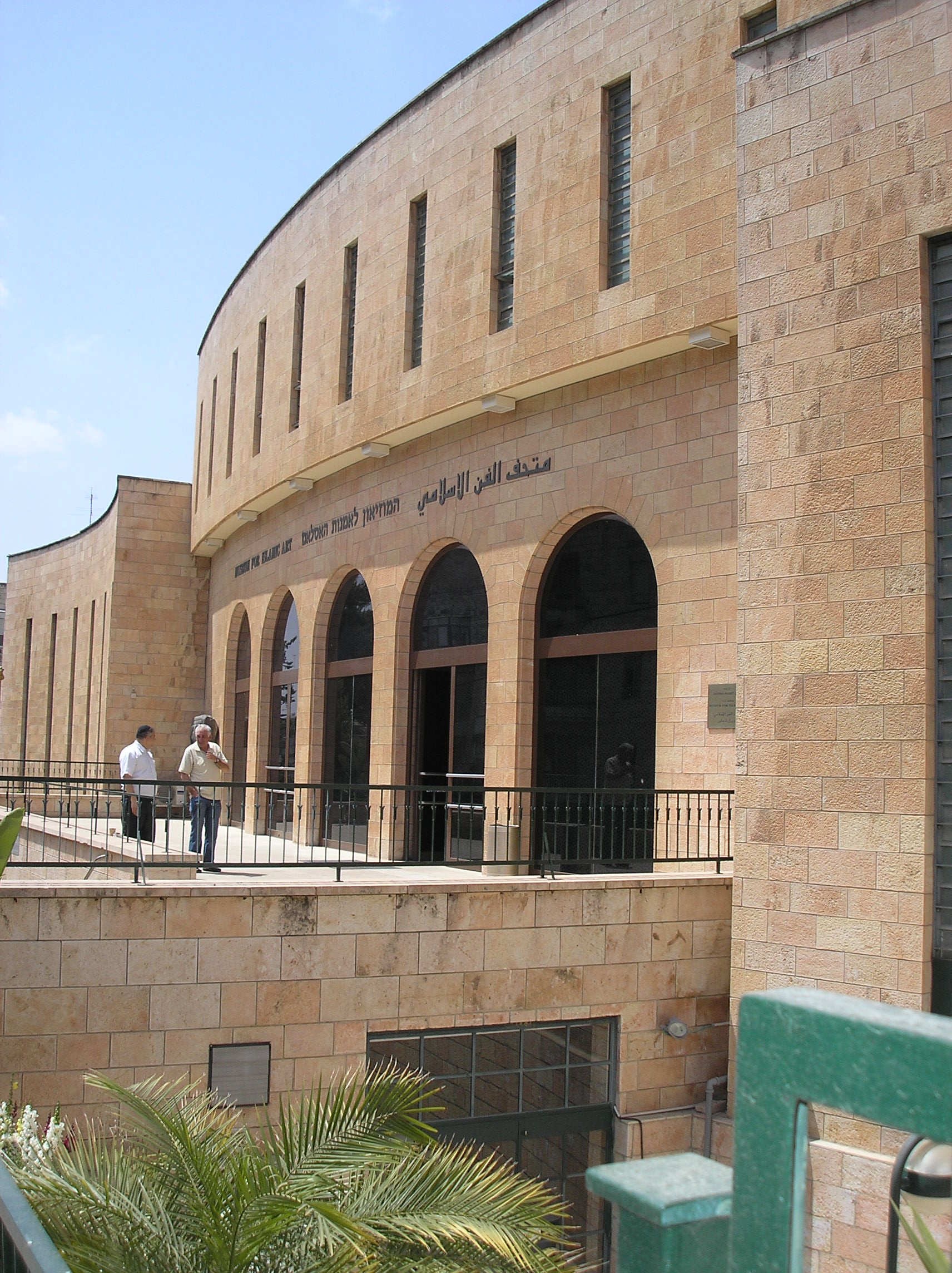 L. A. Mayer Institute of Islamic Art, Talbiya, Jerusalem